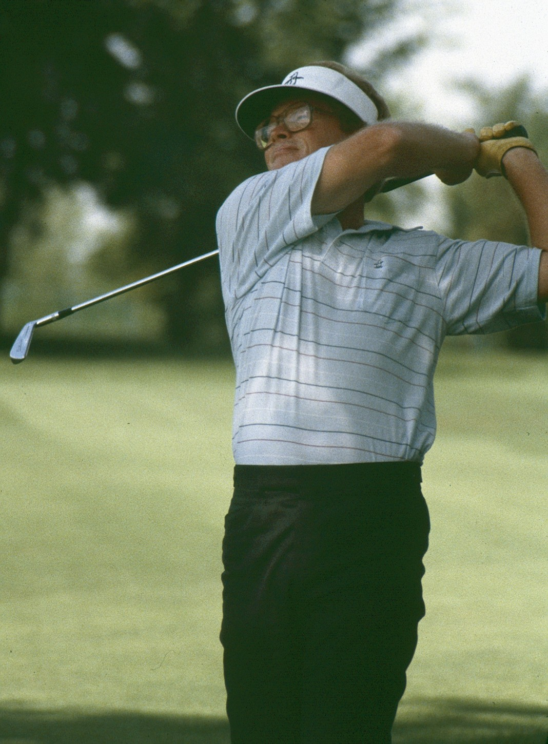 American professional golfer Tom Kite. Photo by Ted Van Pelt